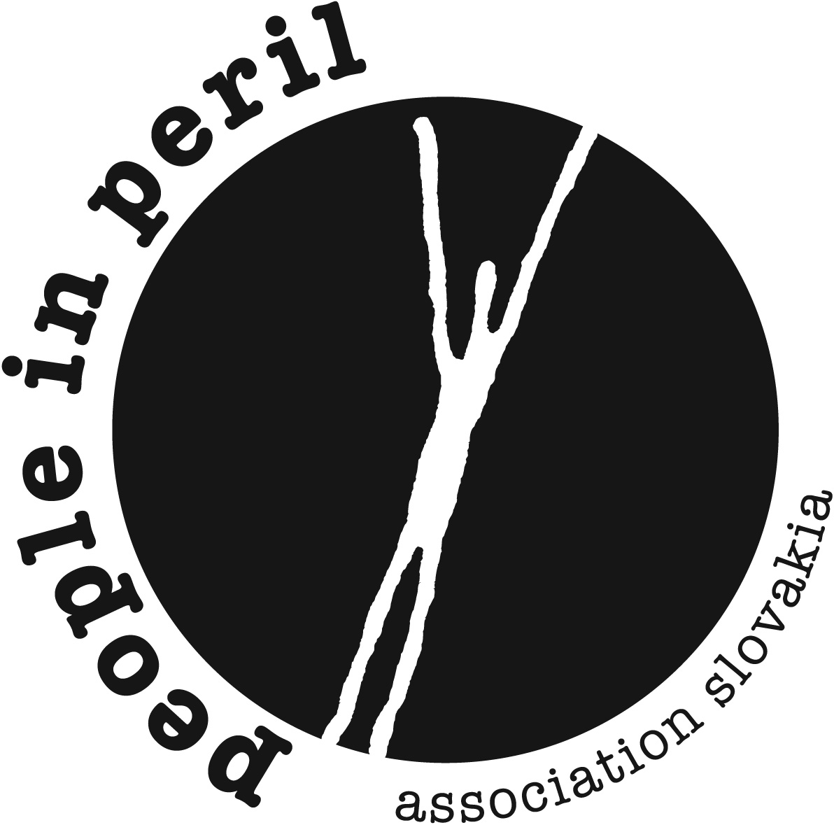 logo people in peril